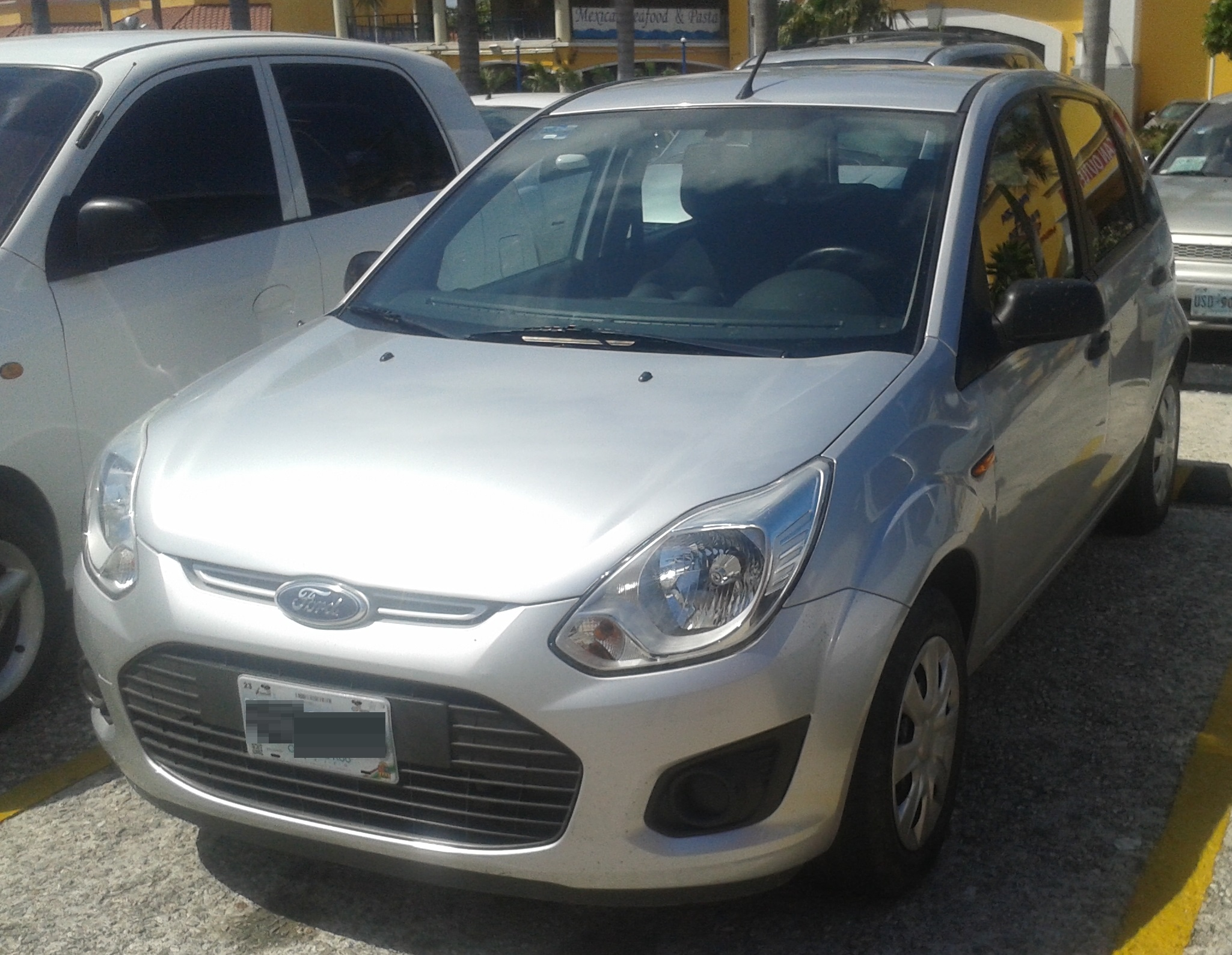 Ford Fiesta Ikon photographed in Cancùn, Quintana Roo, Mexico.